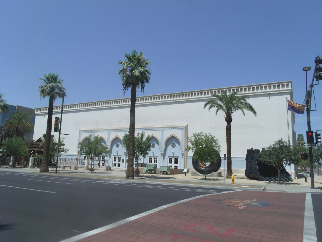 Historic El Zaribah Shrine Auditorium (now the Polly Rosenbaum Building) built in 1921, NRHP - March 9, 1989 - located in 1502 W. Washington St., Phoenix, Arizona.